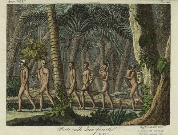 Puri Indians in Brazil, early print, Title Puris nelle loro foreste.